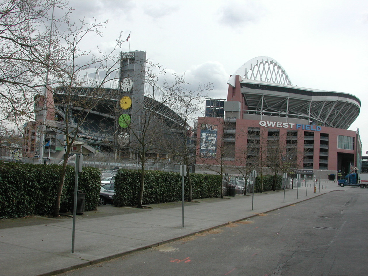 Qwest Field serves as the home field for the NFL's Seattle Seahawks, and the men's and women's Seattle Sounders soccer teams, and will be home of Major League Soccer's Seattle Sounders FC beginning in 2009. The stadium opened in July 2002 and was built on the site of the Kingdome, the previous stadium for the Seahawks, Major League Baseball's Seattle Mariners, and several other Seattle sports teams. On March 26, 2000, to make way for the construction of the stadium, the Kingdome fell in the world's largest implosion of a single concrete structure.